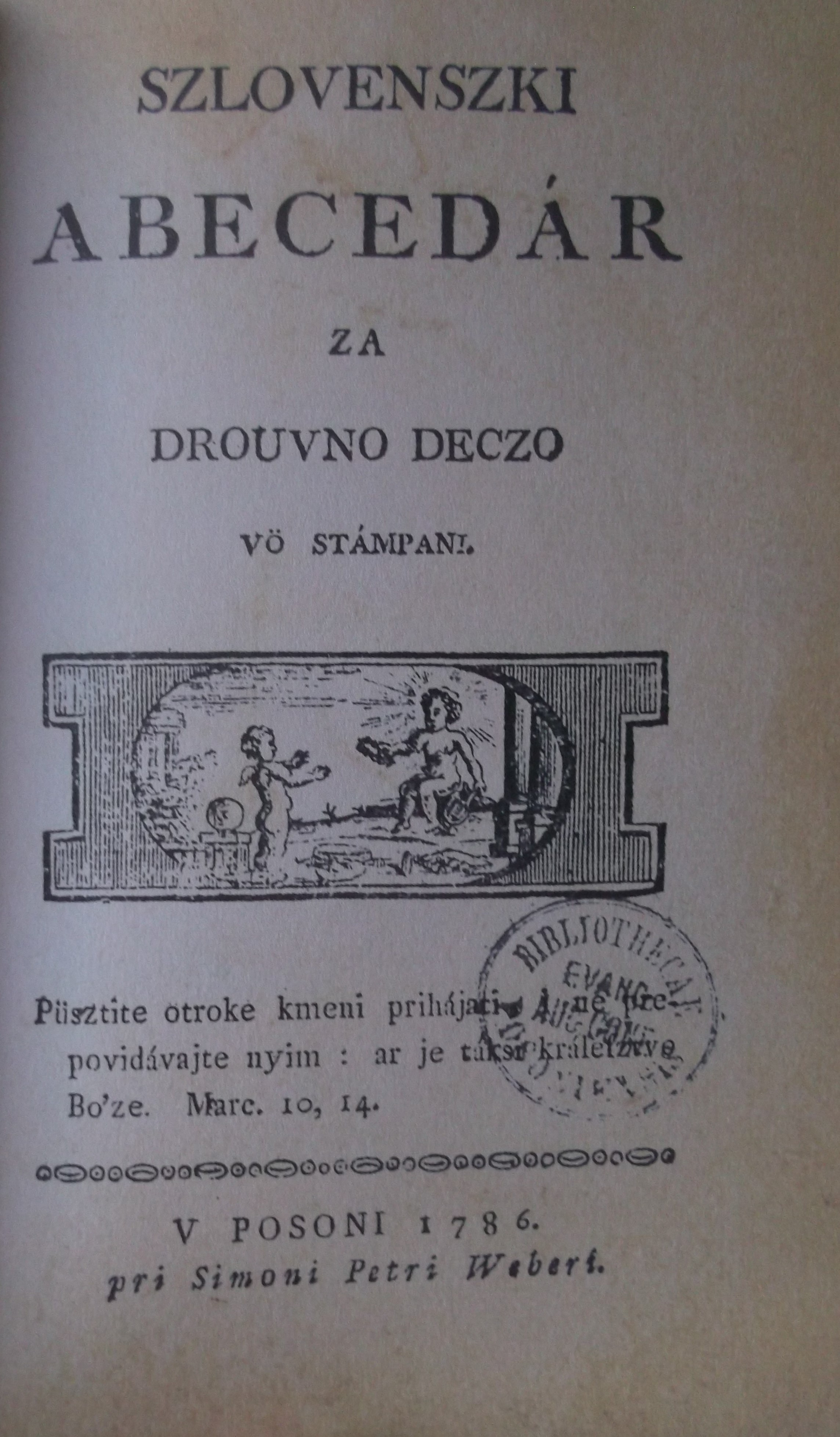 Mihály Bakos: Szlovenszki Abecedár (Slovenian ABC book), 1786 in prekmurian language (prekmurščina)